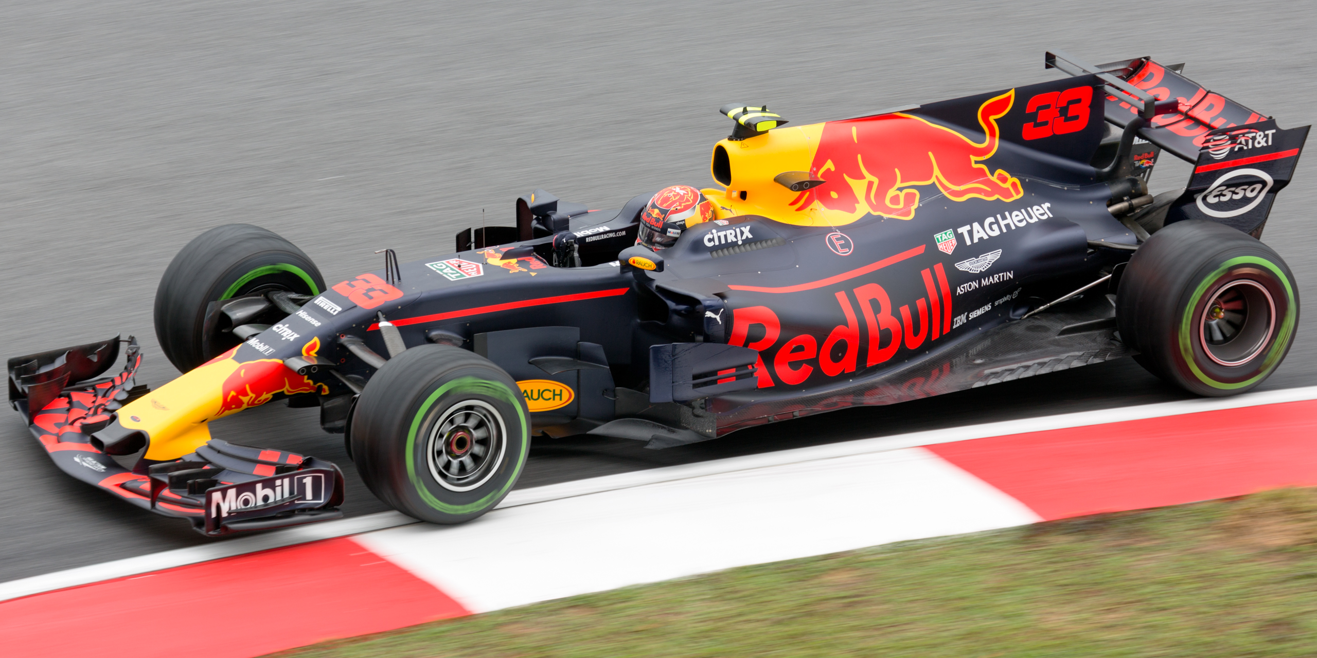 Formula One 2017 Rd.15 Malaysian GP: Max Verstappen (Red Bull)